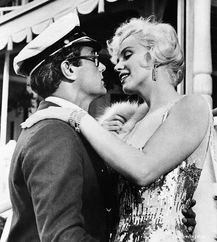 Marilyn Monroe and Tony Curtis in a promotional image for Some Like it Hot (1959)